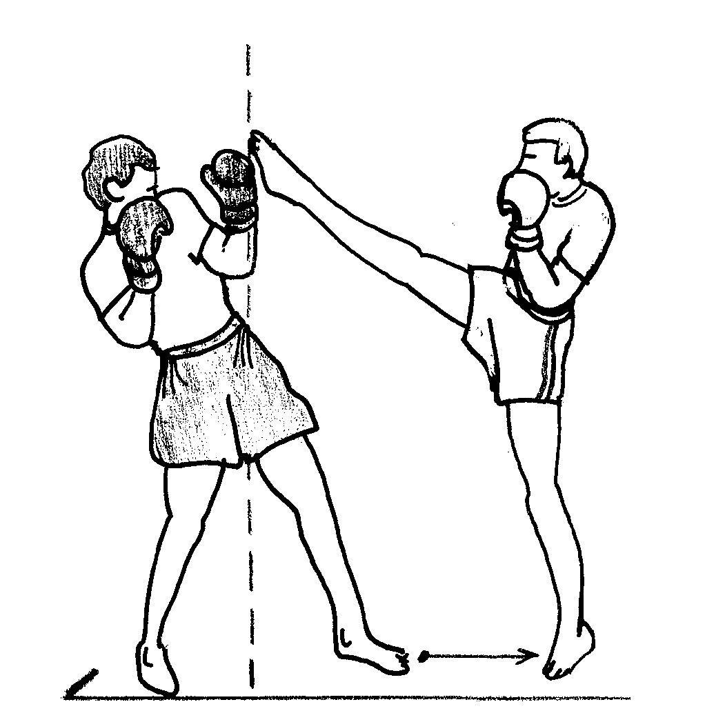 retrai_high.jpg